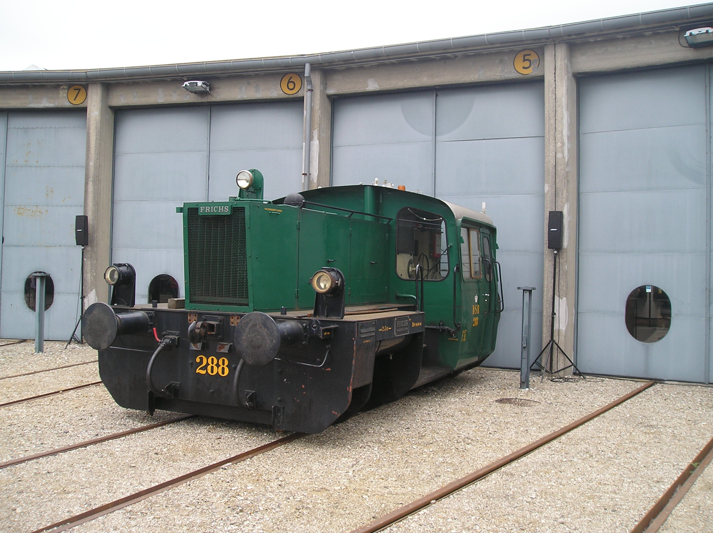 Danish diesel locomotive Köf 288 on Danmarks Jernbanemuseum.